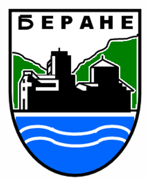 Coat of Arms of Berane City